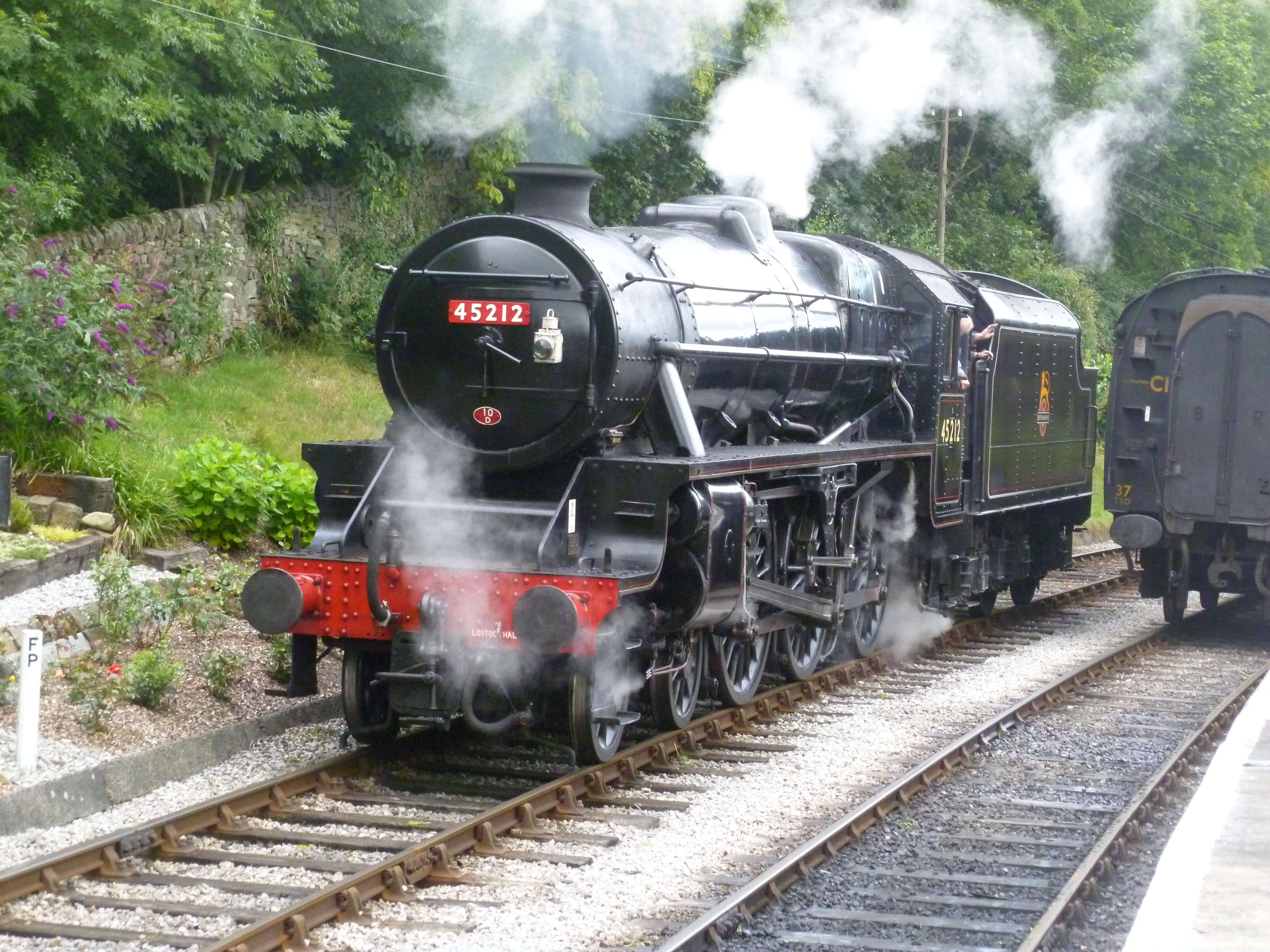 Stanier Class 5 No. 45212 runs round it's train at Oxenhope on the Keighley and Worth Valley Railway.